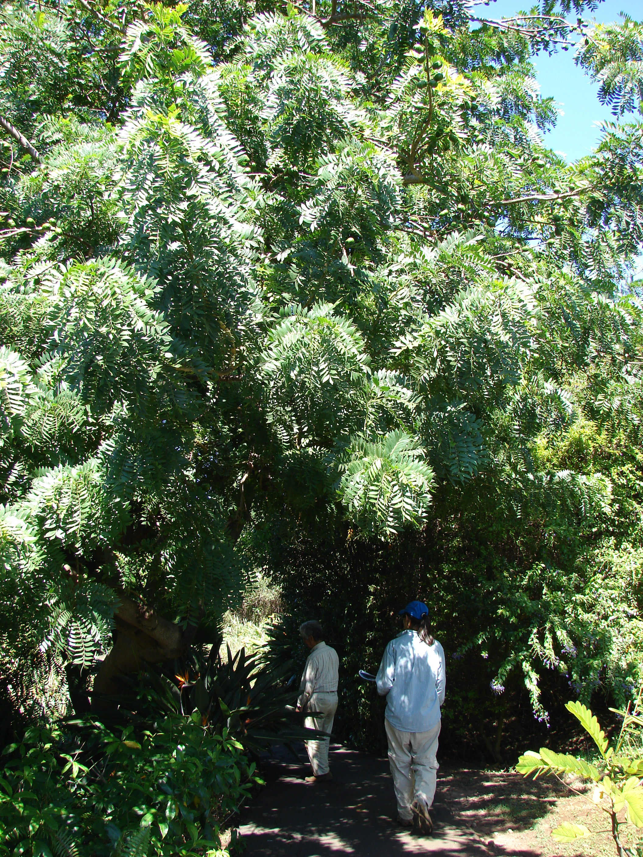 Spondias mombin (habit with Takeda and Kim). Location: Maui, Enchanting Floral Gardens of Kula